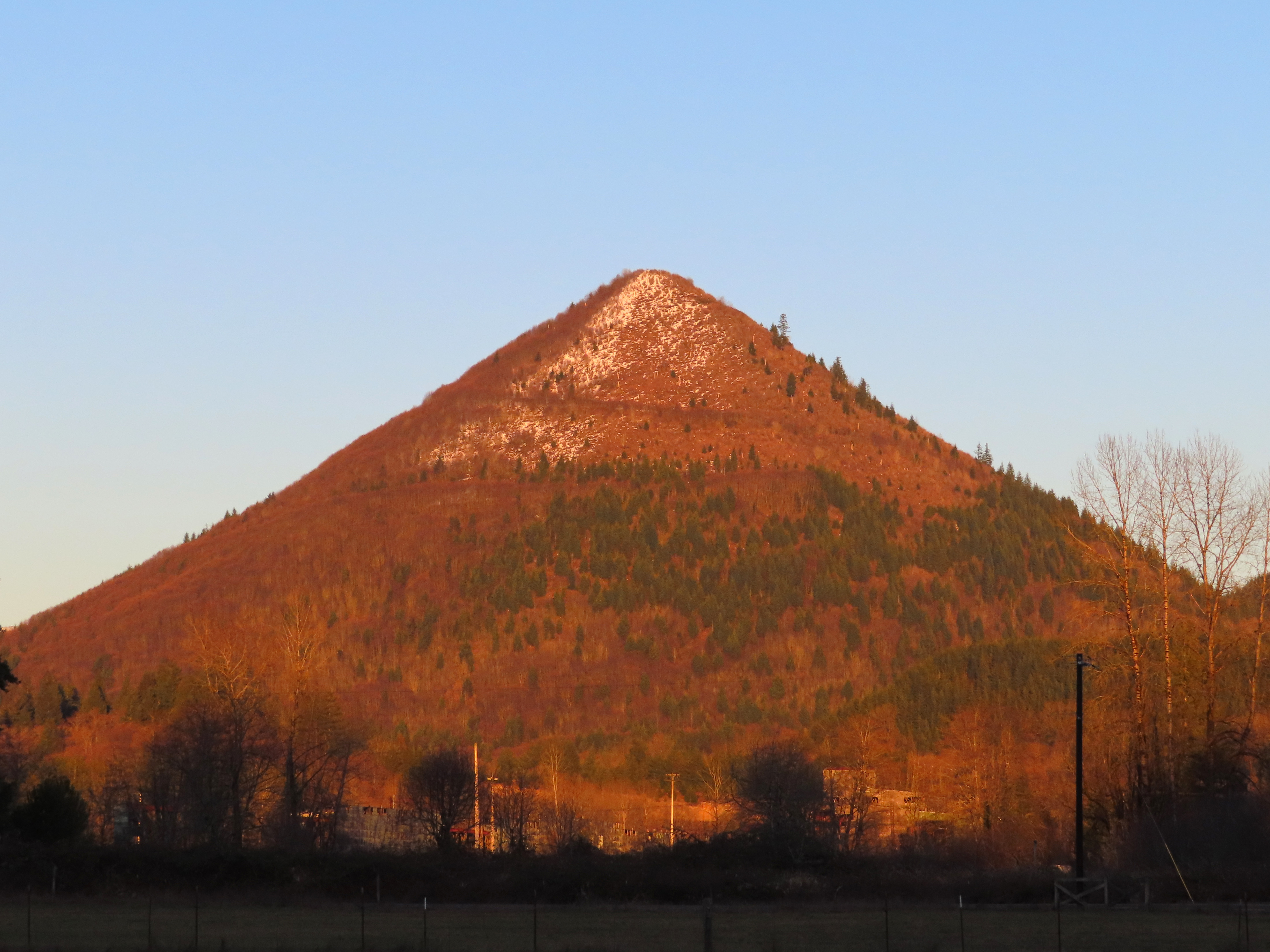 Tumtum Mountain (elevation 2004 ft / 611 m), a small volcanic lava dome in southwestern Washington state, seen from the west along NE Healy Rd in Chelatchie Prairie just before sunset.